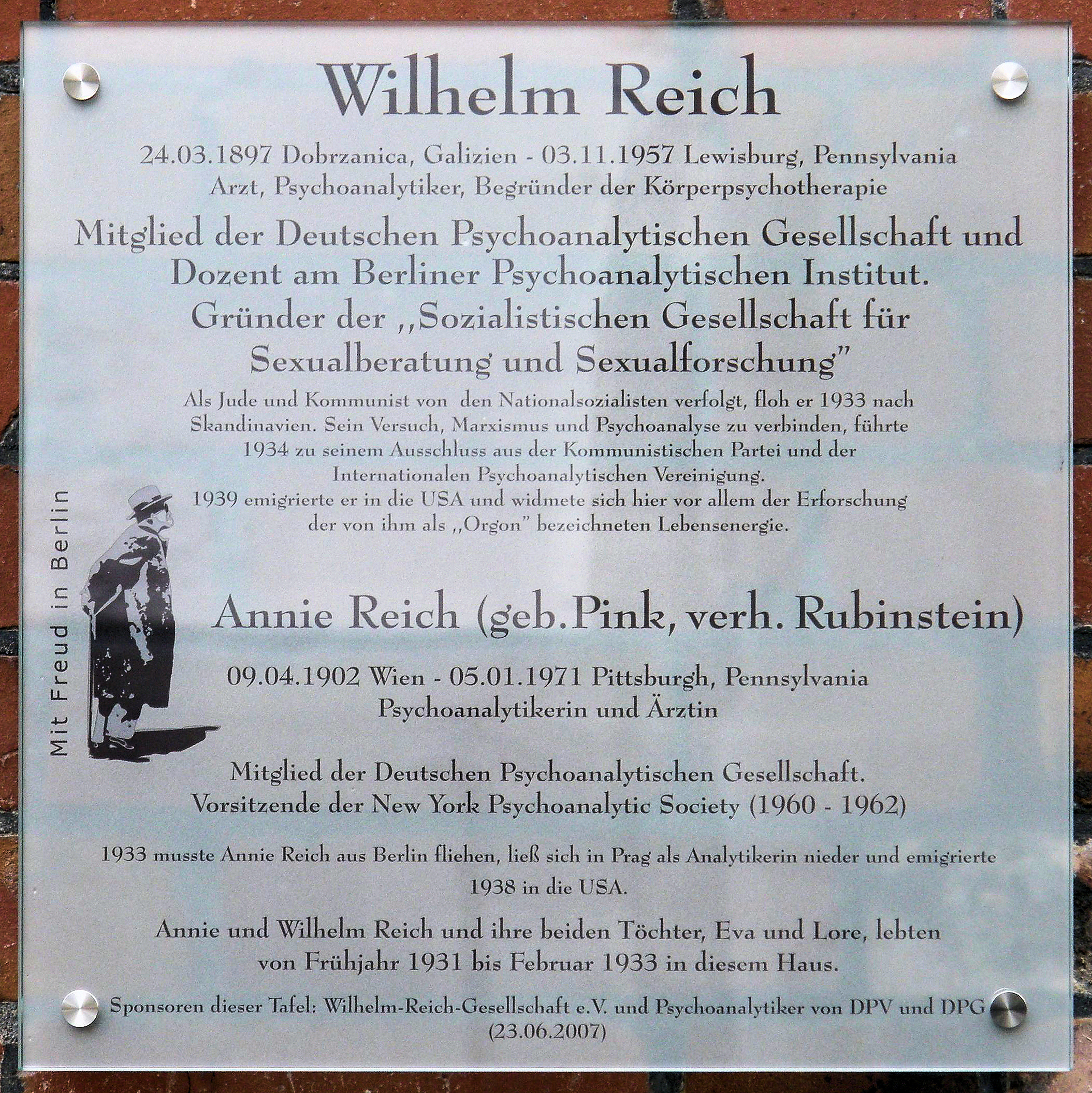 Memorial plaque, Wilhelm Reich, Schlangenbader Straße 87, Berlin-Wilmersdorf, Germany